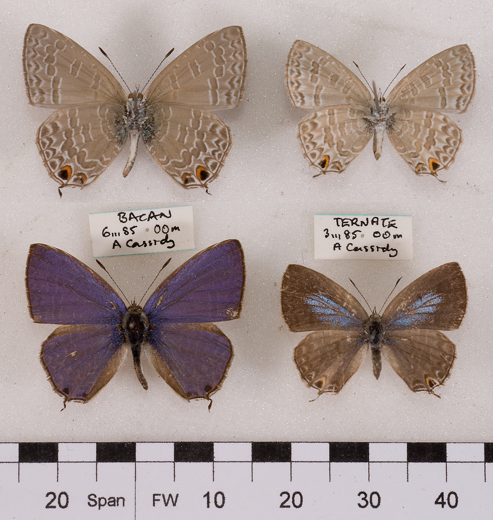 Catopyrops ancyra ancyra, male, female, set specimens, North Moluccas, Maluku, Alan Cassidy photo.